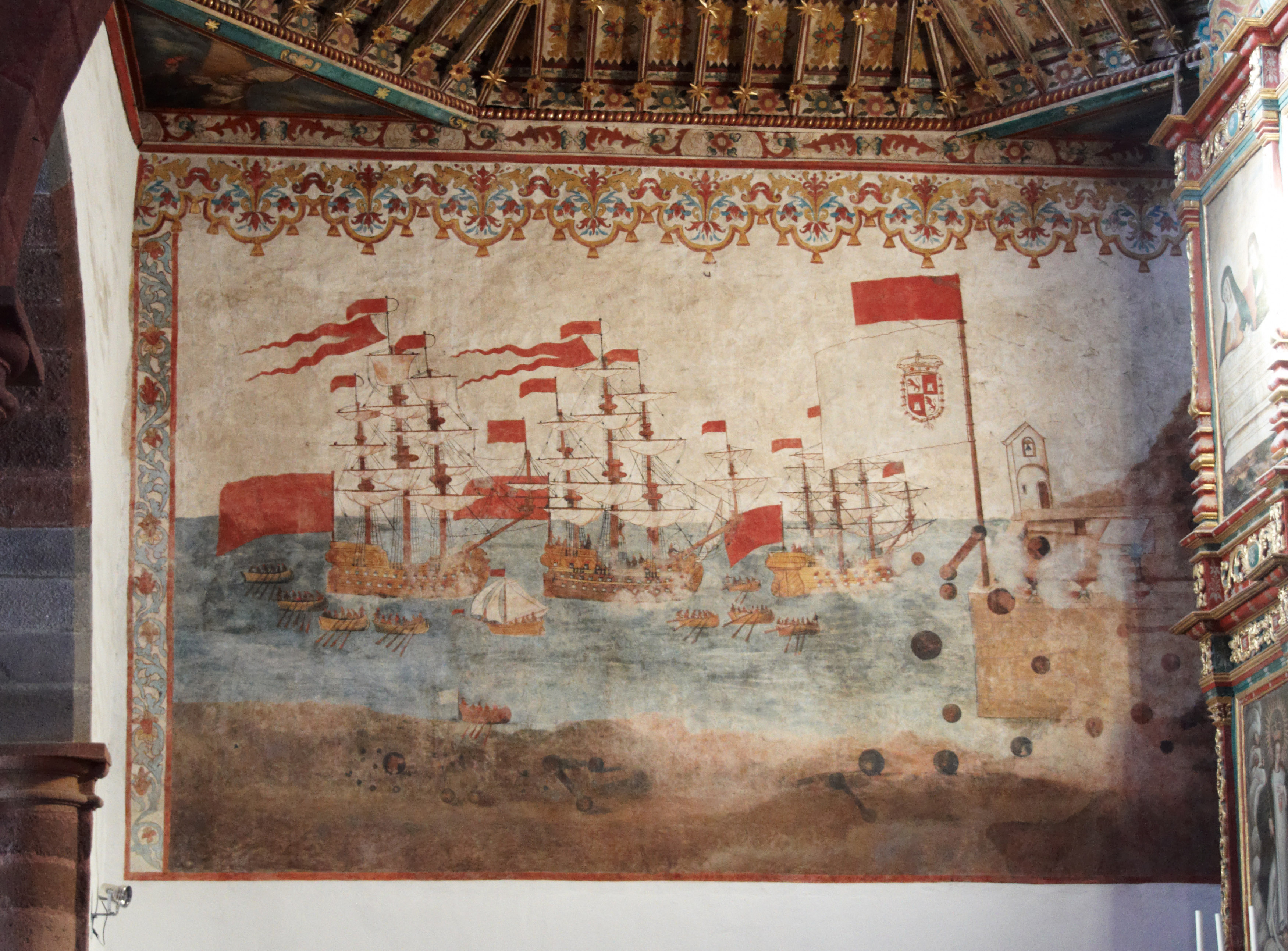 Inside the Iglesia de Nuestra Señora de la Asunción